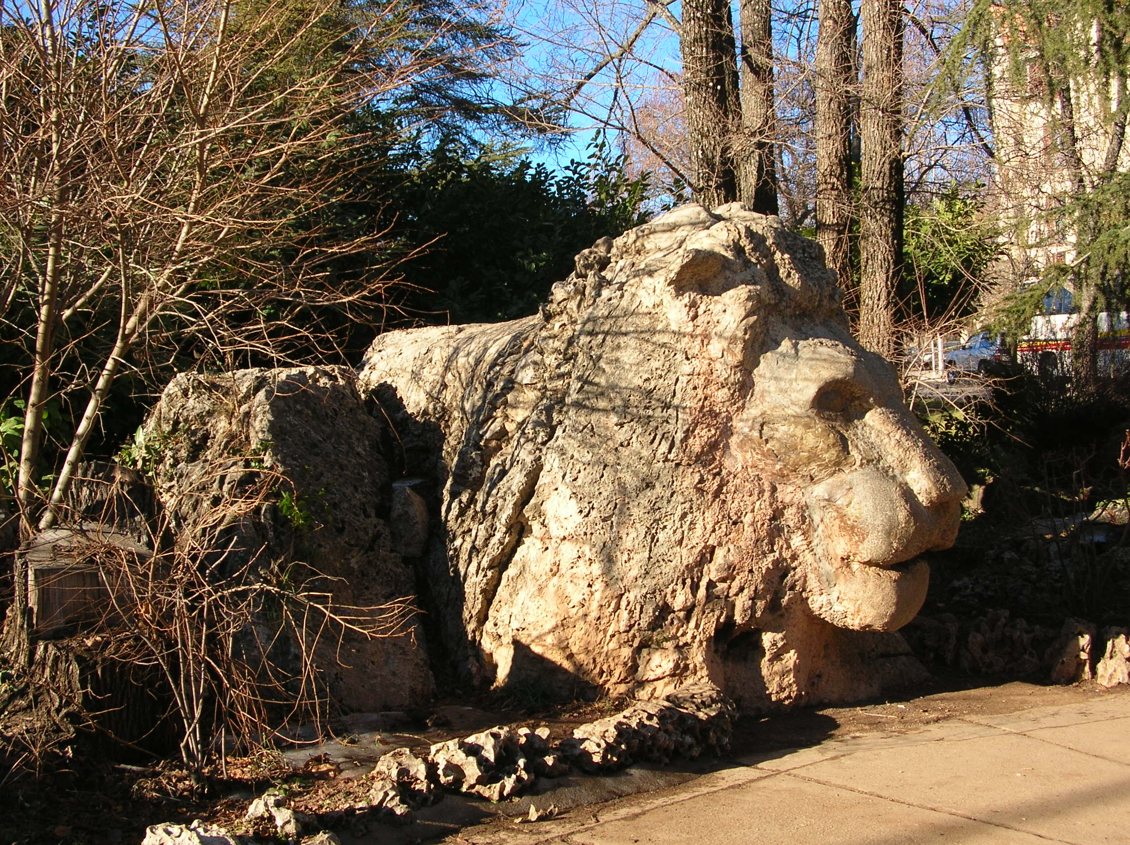 Lion sculpted in the rock by Henri Jean Moreau (1890-1956) in 1930 in Ifrane, Morocco